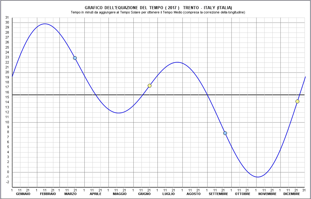 Time equation Trento (italy) 2017